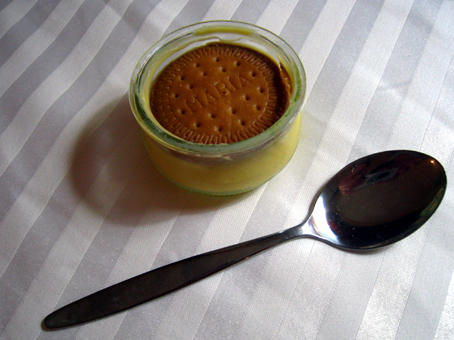 It's pretty much custard in a jar with a milk arrowroot biscuit on top.